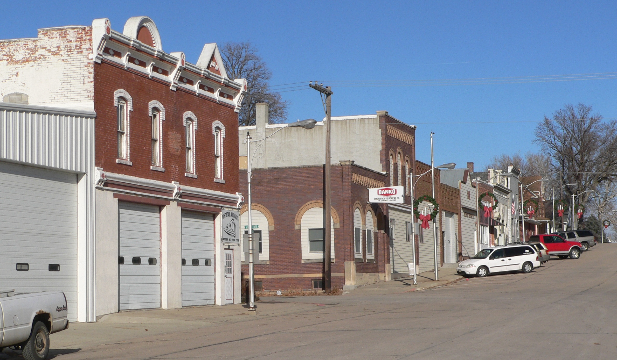 Downtown Snyder, Nebraska: Ash Street, looking northwest.